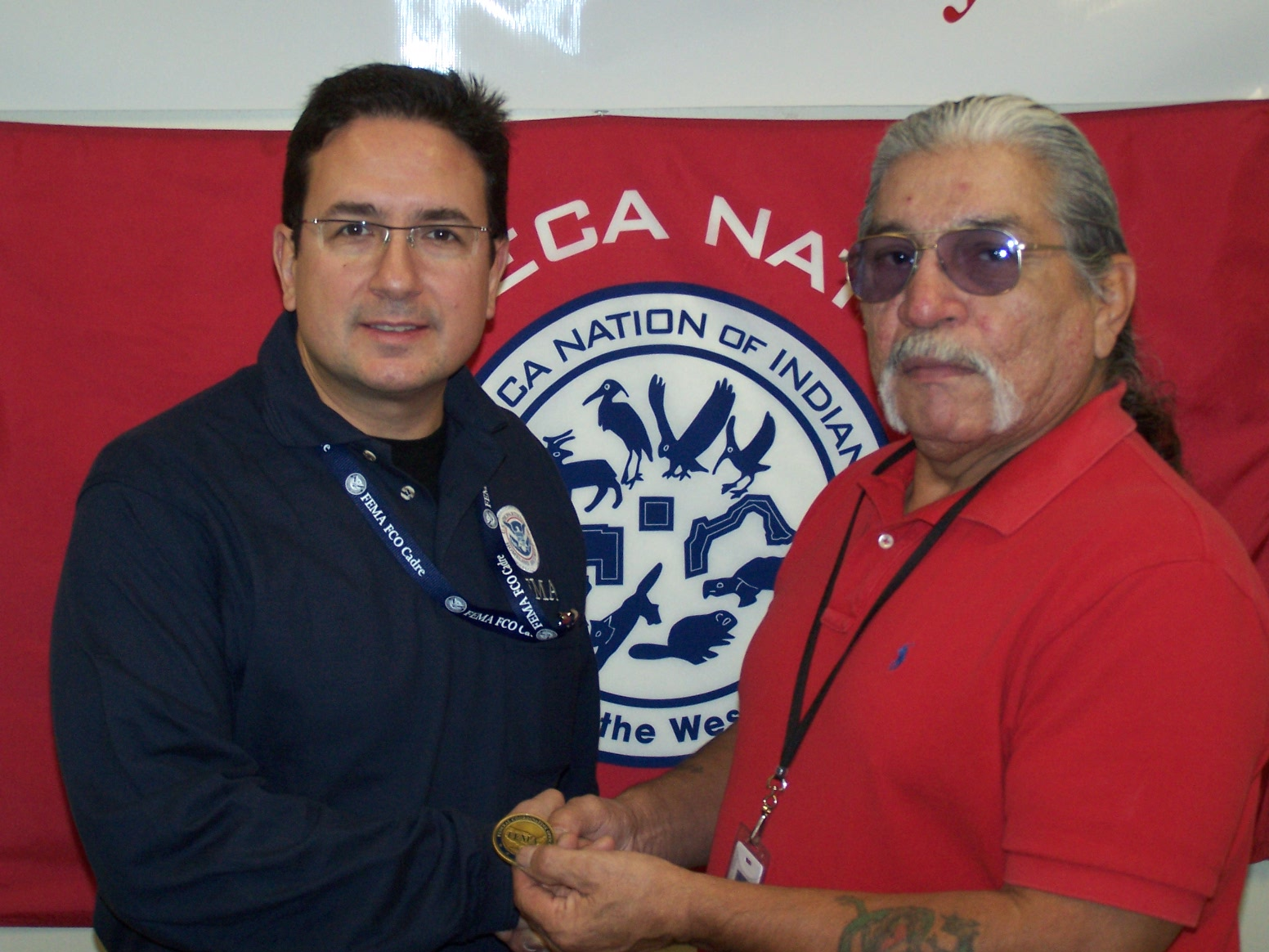 Cheektowaga, NY, October 22, 2009 -- FEMA Federal Coordinating Officer Jaime E. Forero presents an FCO coin to Art John, Director – Emergency Response for the Seneca Nation of Indians (SNI) to commemorate the strong relationship between the federal government and SNI. A major disaster declaration, which includes portions of the Seneca Nation, was signed on Sept. 1, 2009, after torrential storms and flooding inundated western New York in early August. FEMA/Dana Cudmore